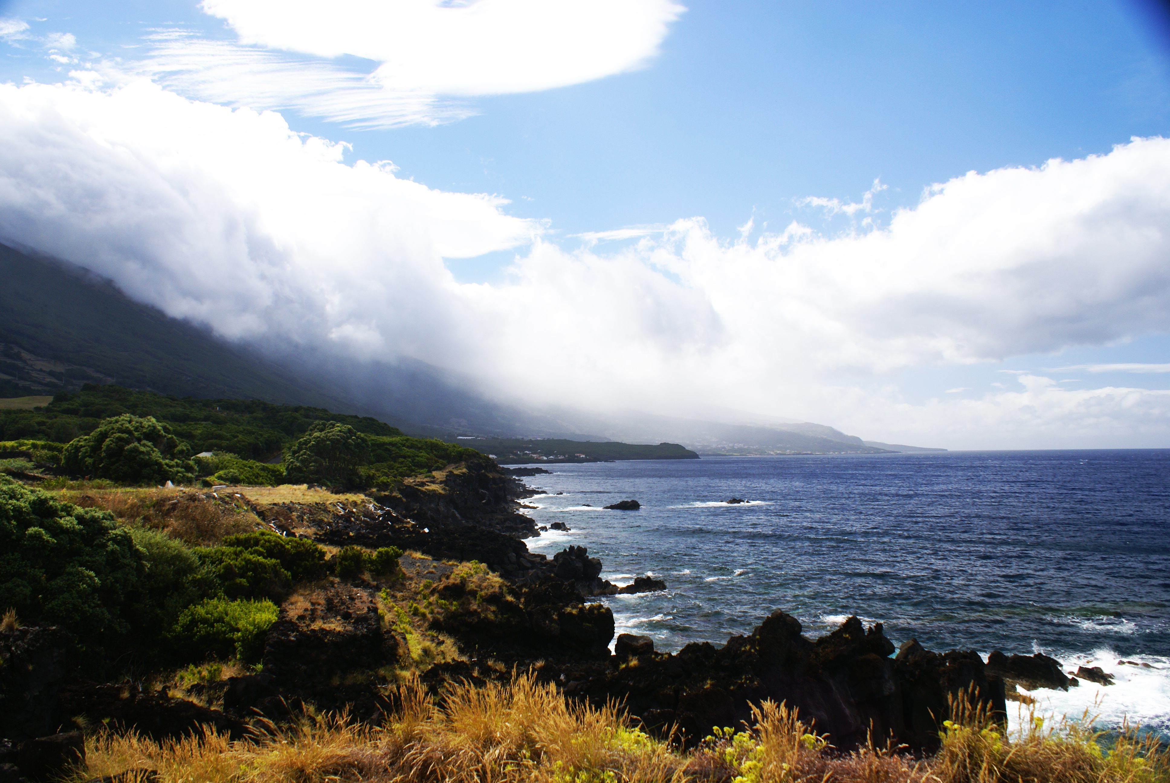 Prainha, vista parcial, concelho de São Roque do Pico, ilha do Pico, Açores, Portugal